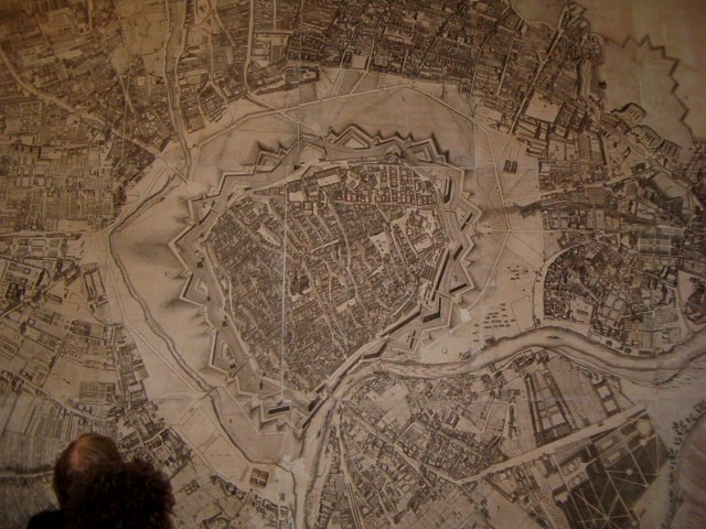 Military map of Vienna from the Habsburg age, presented by National Széchényi Library of Hungary